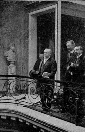 Inauguration du Musée Jacquemart-André, décembre 1913, Paris. Le président de République française, Raymond Poincaré, devant la fresque de Tiepolo. Derrière le Président, M. Émile Bertaux, premier directeur du musée, et M. Léon Bérard.